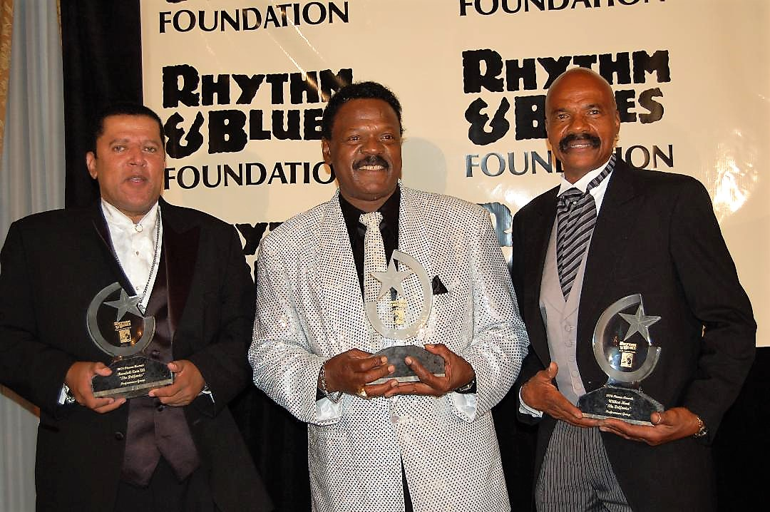 The Delfonics at the Rhythm and Blues Foundation Awards where they were honored with the Pioneer Award. It is license under Creative Commons licenses